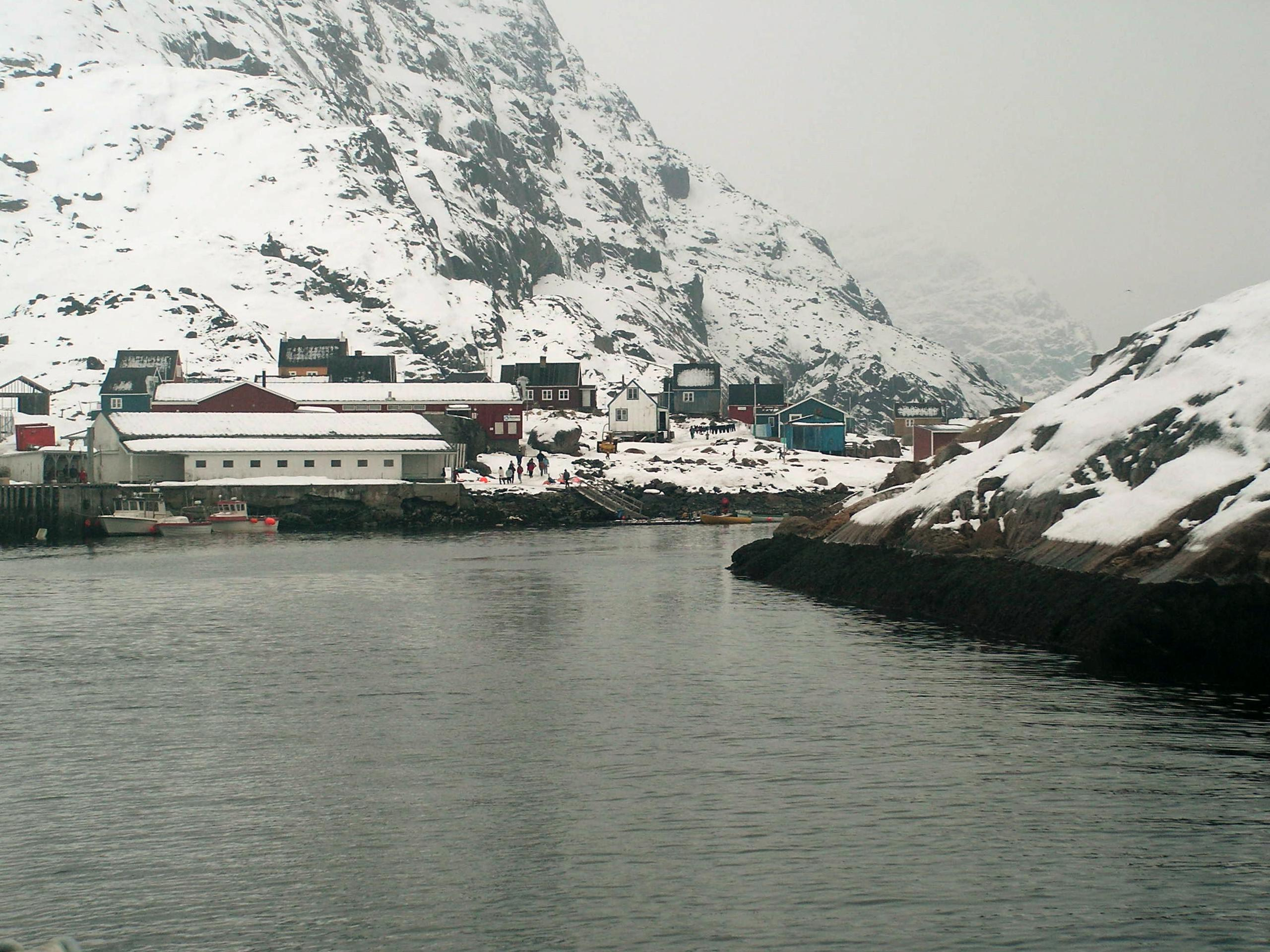 Aappilattoq (Nanortalik), Greenland. Taken by me December 2005.